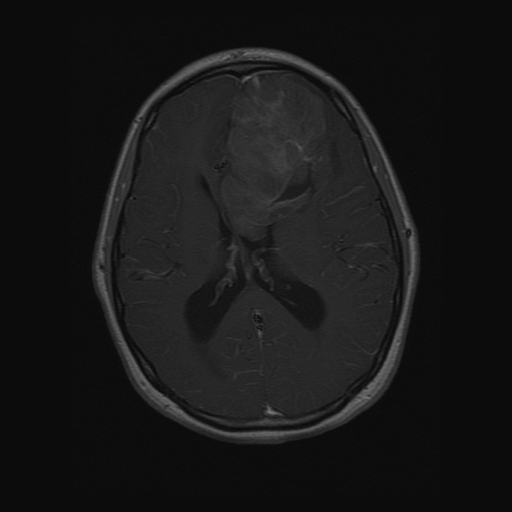 Magnetic resonance imaging of central neurocytoma. On axial T1 upon gadolinium enhancement, heterogeneous weak contrast enhancement of the tumor can be appreciated.